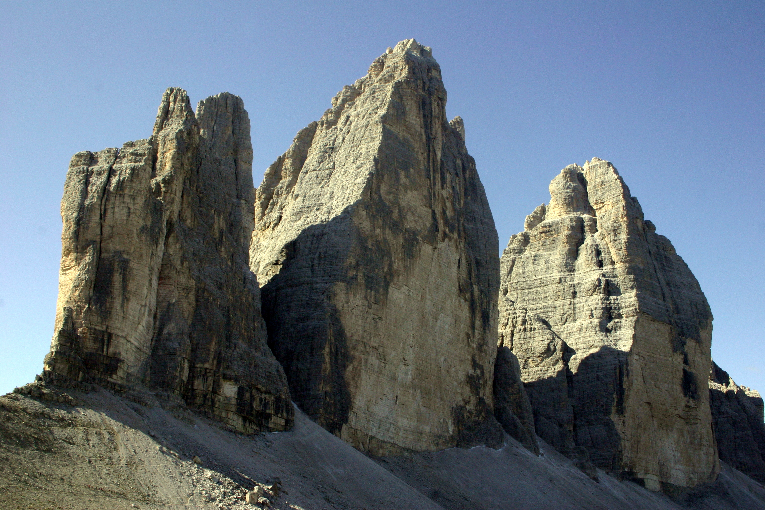 Drei Zinnen (ital. Tre Cime di Lavaredo) seen (roughly) from Paternsattel (just a little to the north)